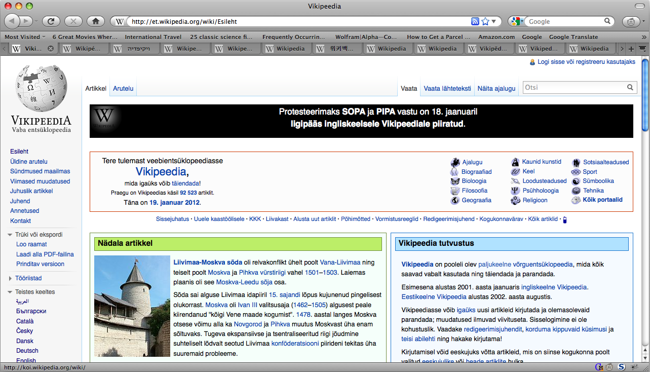 Screenshot of Estonian Wikipedia Main Page on Main Page on 18 January 2012 in solidarity with English Wikipedia SOPA & PIPA protest.